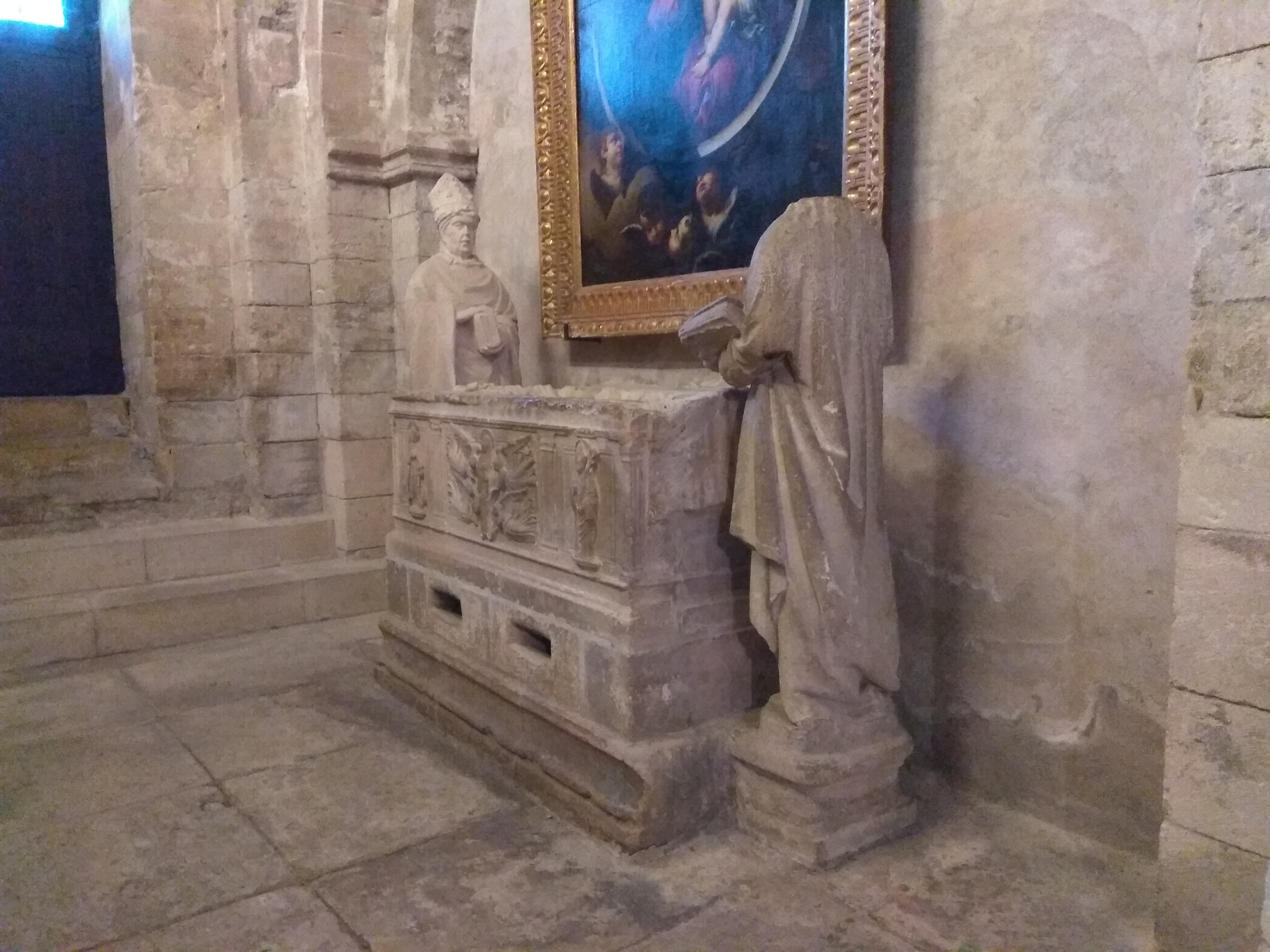 Collégiale Sainte-Marthe de Tarascon